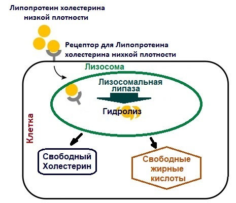 Lysosomal lipase action